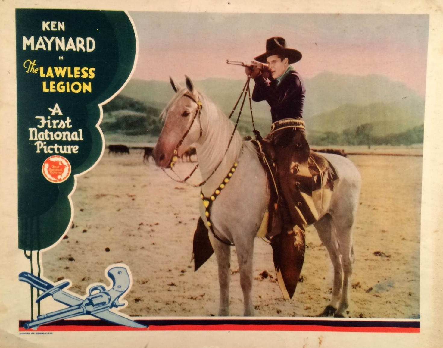 Lobby card for the American western film The Lawless Legion (1929).